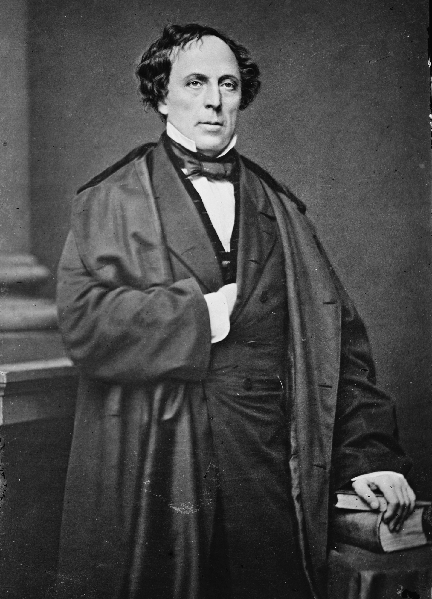 TITLE: Hon. John B. Floyd CALL NUMBER: LC-BH82- 4753 A [P&P] REPRODUCTION NUMBER: LC-DIG-cwpbh-01730 (b&w copy scan) No known restrictions on publication. MEDIUM: 1 negative : glass, wet collodion. CREATED/PUBLISHED: [between 1855 and 1865] NOTES: Title from unverified information on negative sleeve. Forms part of Brady-Handy Photograph Collection (Library of Congress). FORMAT: Portrait photographs 1850-1870. Glass negatives 1850-1870. REPOSITORY: Library of Congress Prints and Photographs Division Washington, D.C. 20540 USA DIGITAL ID: (b&w scan) cwpbh 01730